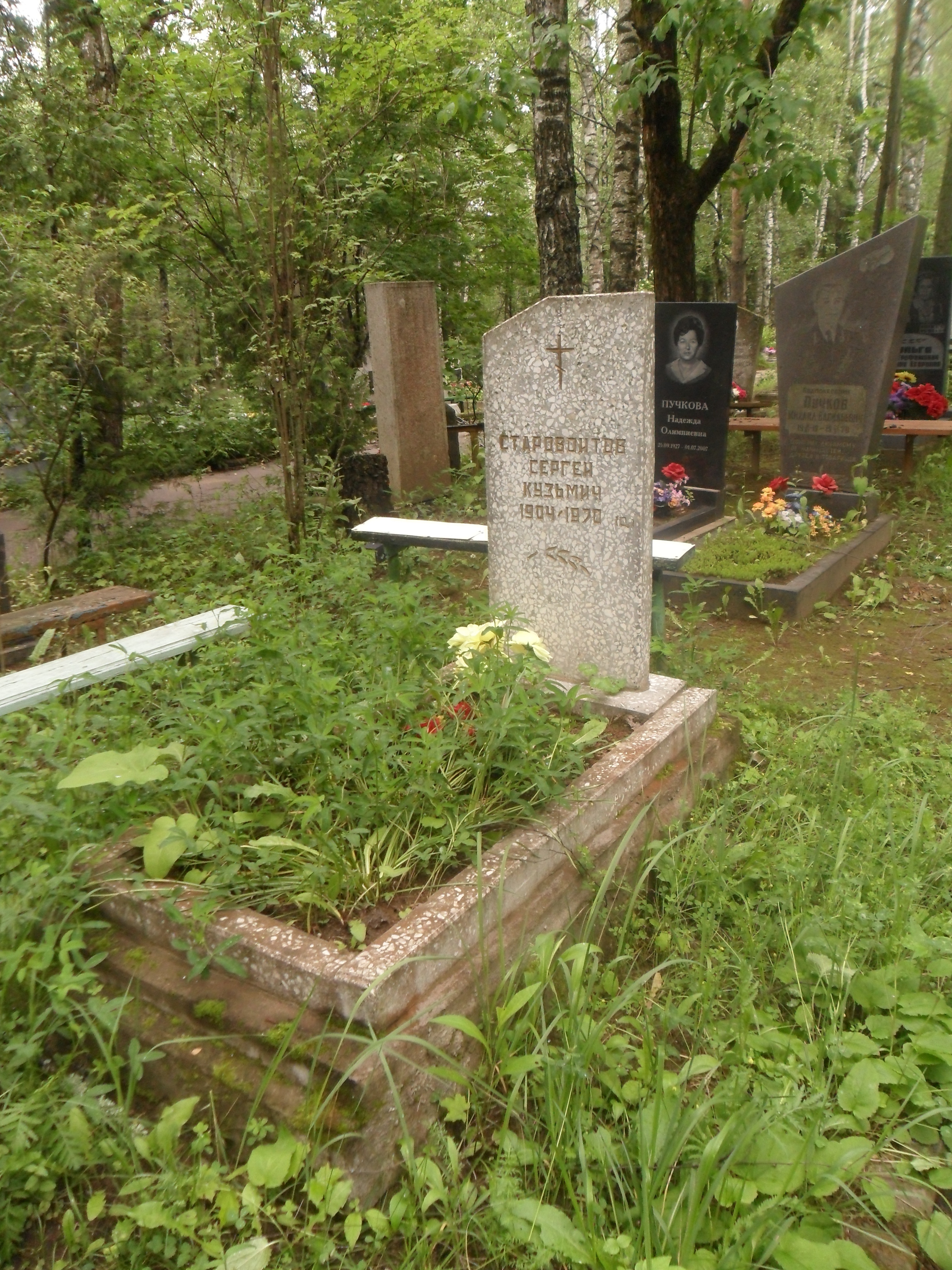 Tomb of the Chevalier of the Order of Glory full Sergey Starovoitov at the New Cemetery in Smolensk.